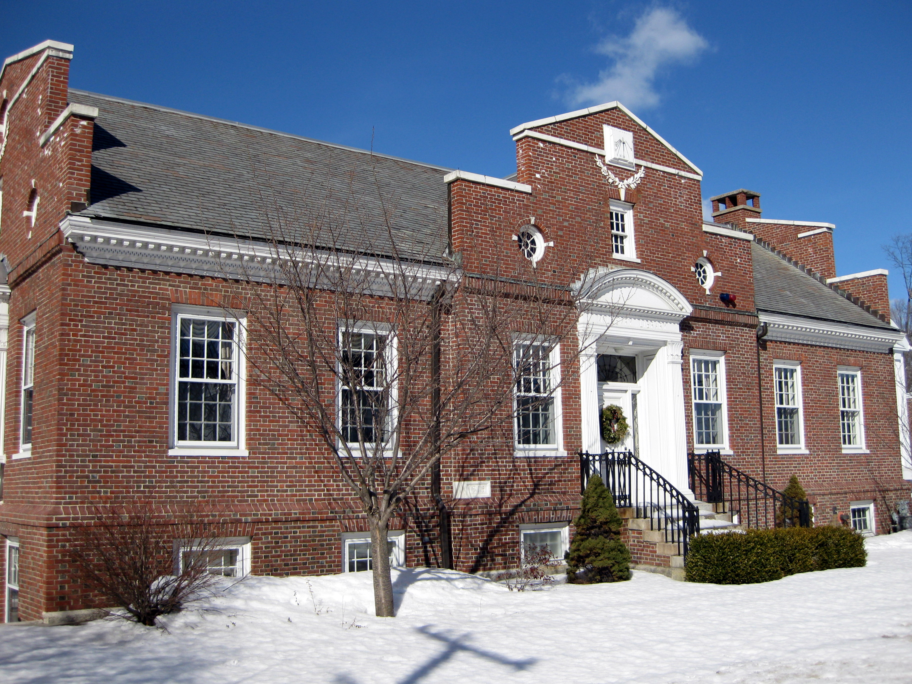 Millbury Public Library, 128 Elm Street, Millbury, Massachusetts